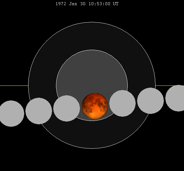 January 1972 lunar eclipse chart of moon's path through the earth's shadow. thumb